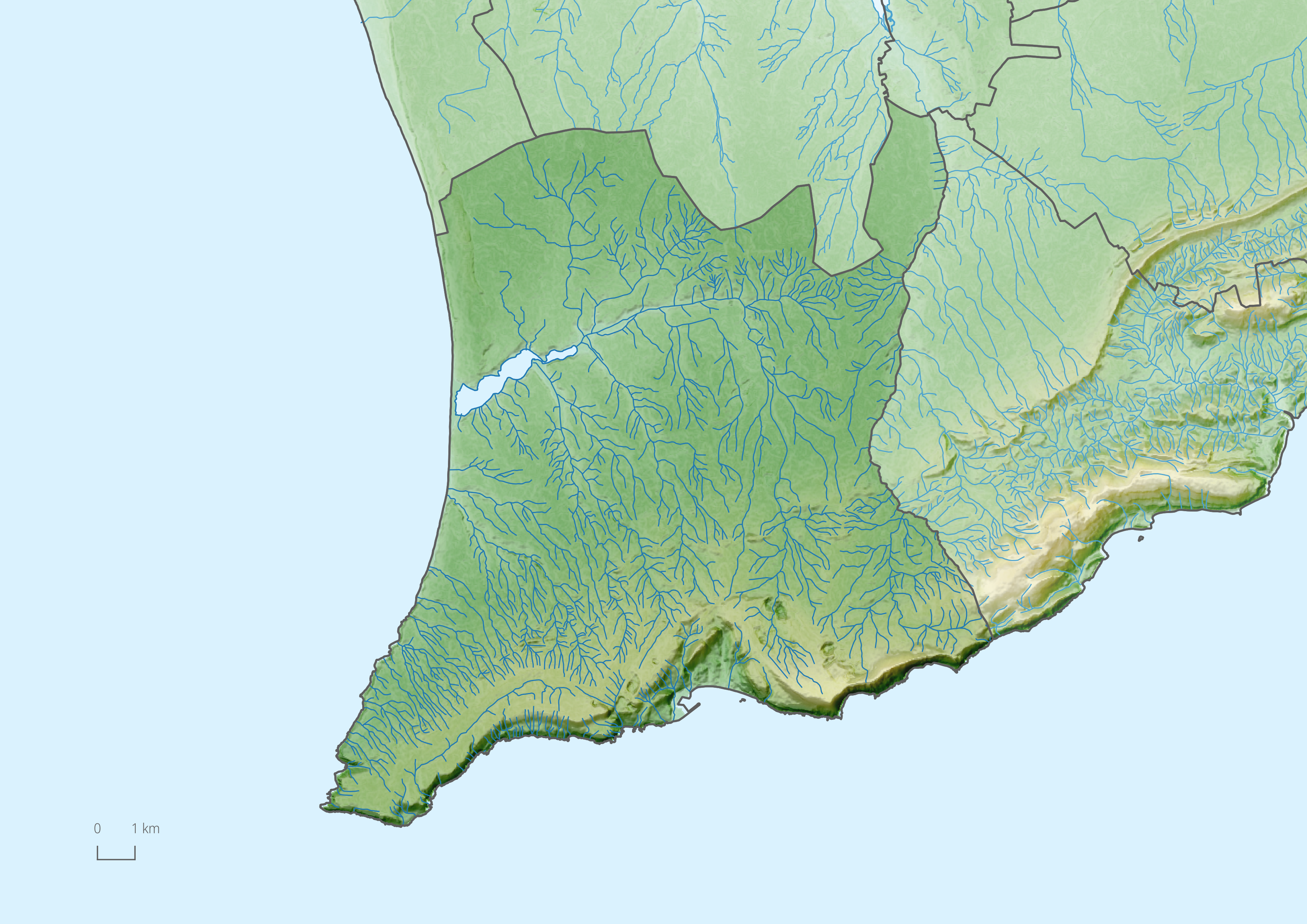 Relief map of Sesimbra, Portugal, complete with administrative boundaries, as well as streams and rivers.